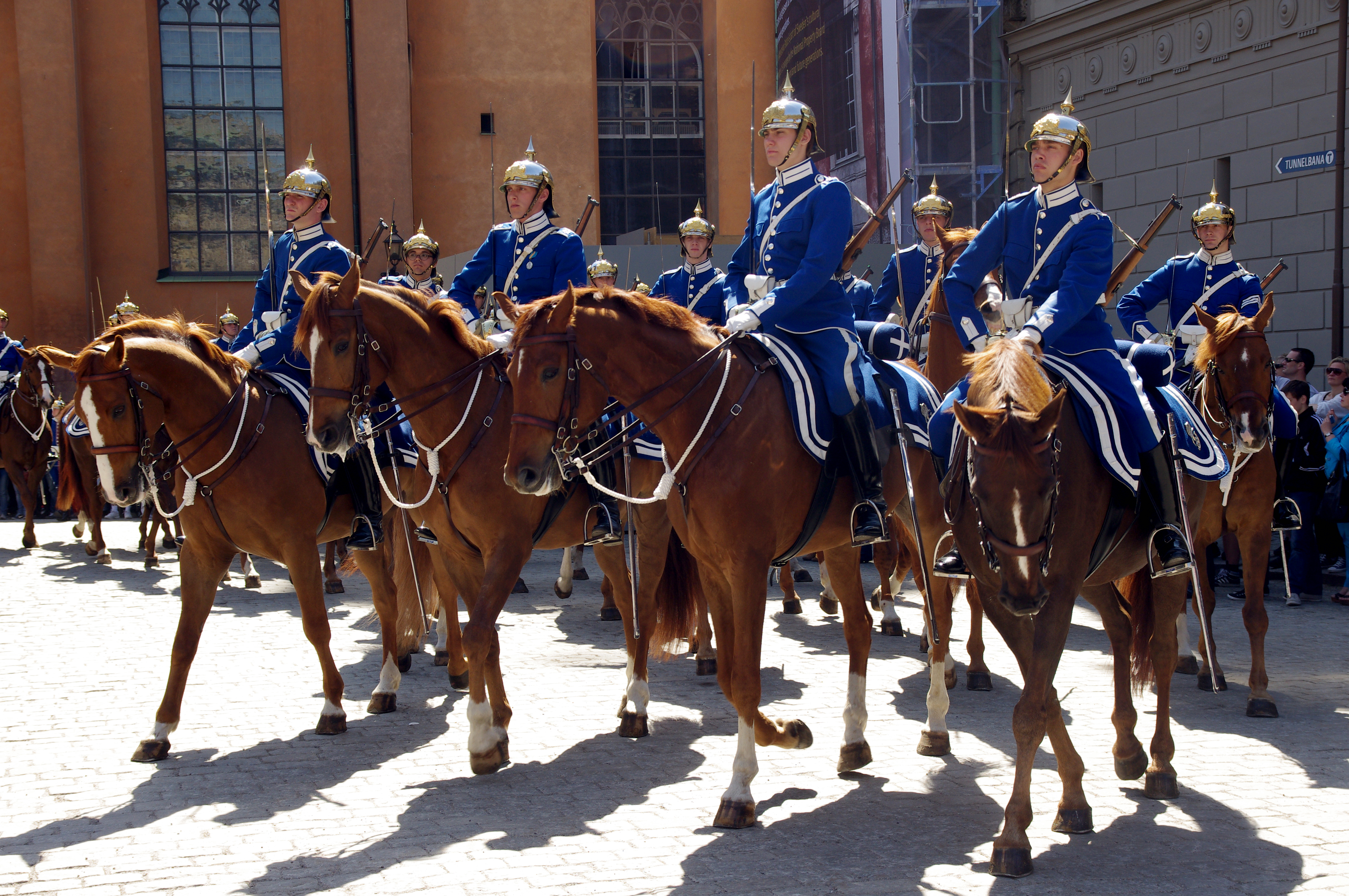 The Royal Guard in Stockholm